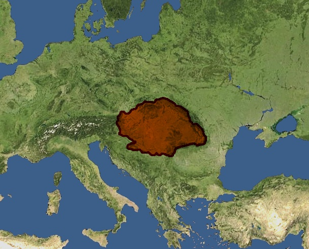 Kingdom of Hungary in 1000.